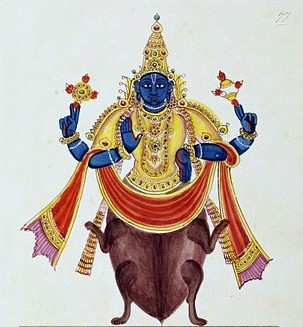 'Vistnoo appeared partly as a Tortoise and partly as a man to afford his assistance to Davata Katchasasa, when they endeavoured to get Amoothun in the Milk Sea.' Inscribed with titles in Telugu with broken english translations. '1820'